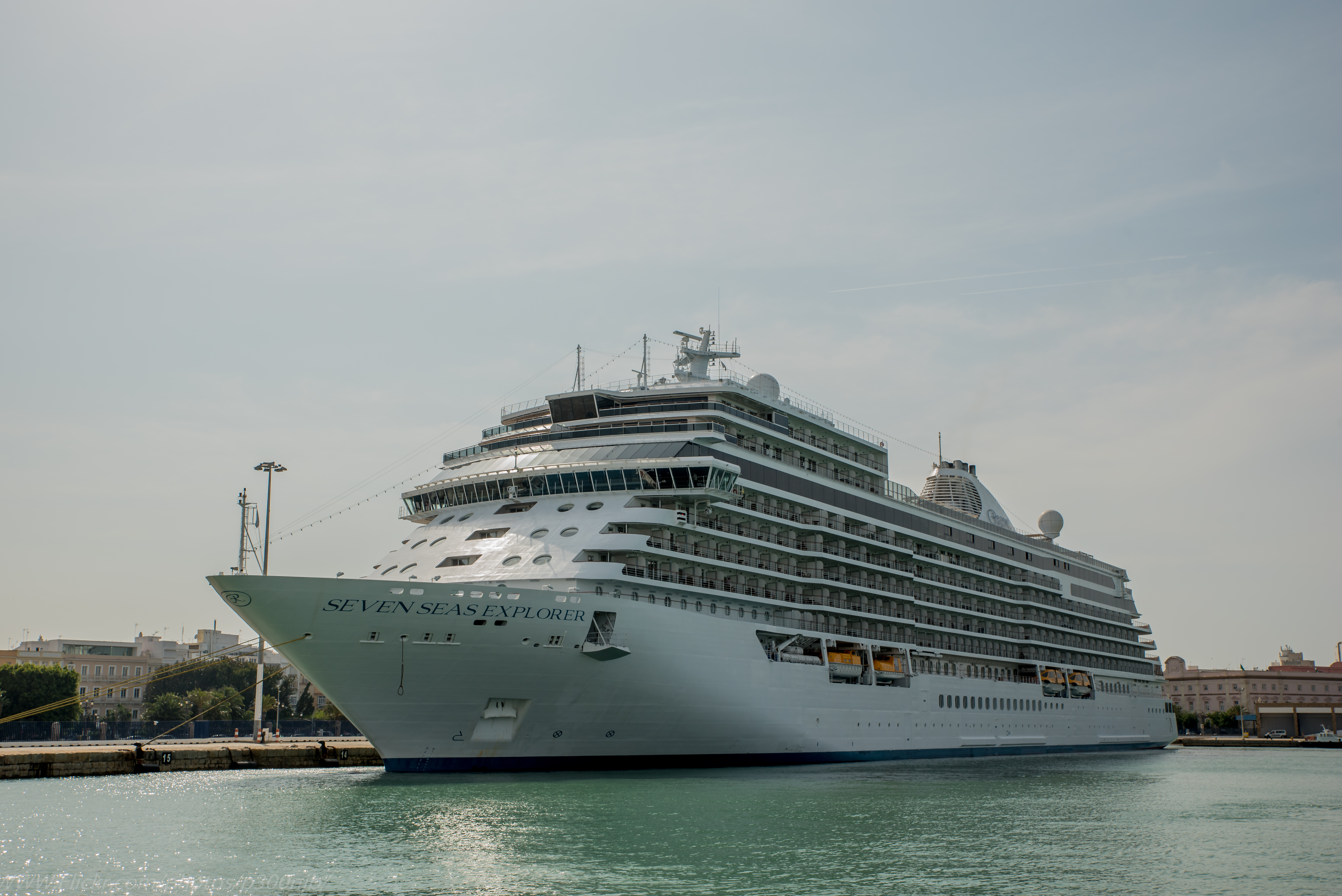 Regent Seven Seas Cruises' Seven Seas Explorer in Cadiz, Spain